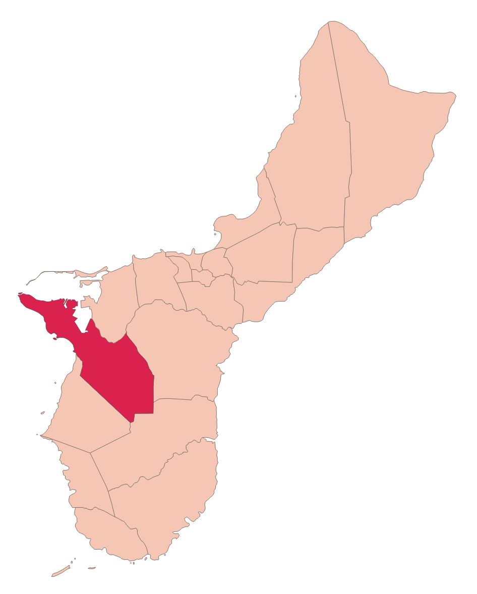 Municipalities of Guam: Santa RitaChamoru: Santa Rita (Guåhån).